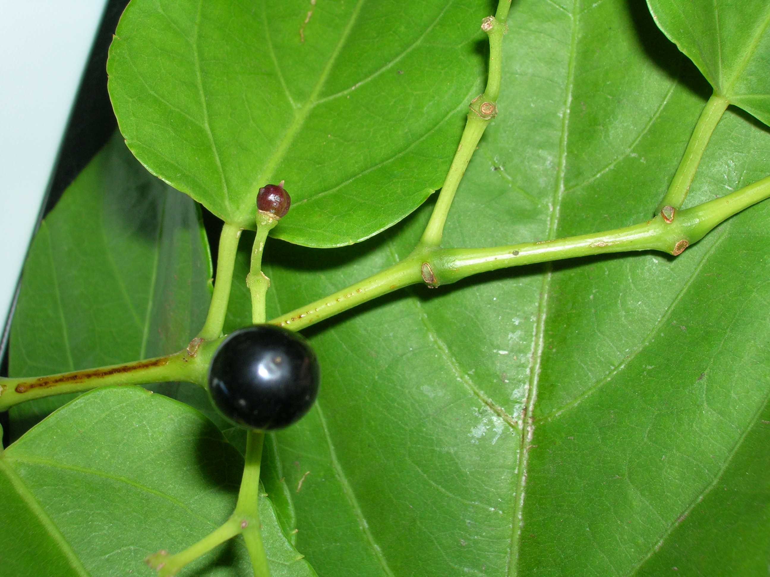 Cissus verticillata (fruit). Location: Oahu, Waimanalo